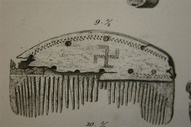 Bone comb with swastika from the Nydam Mose